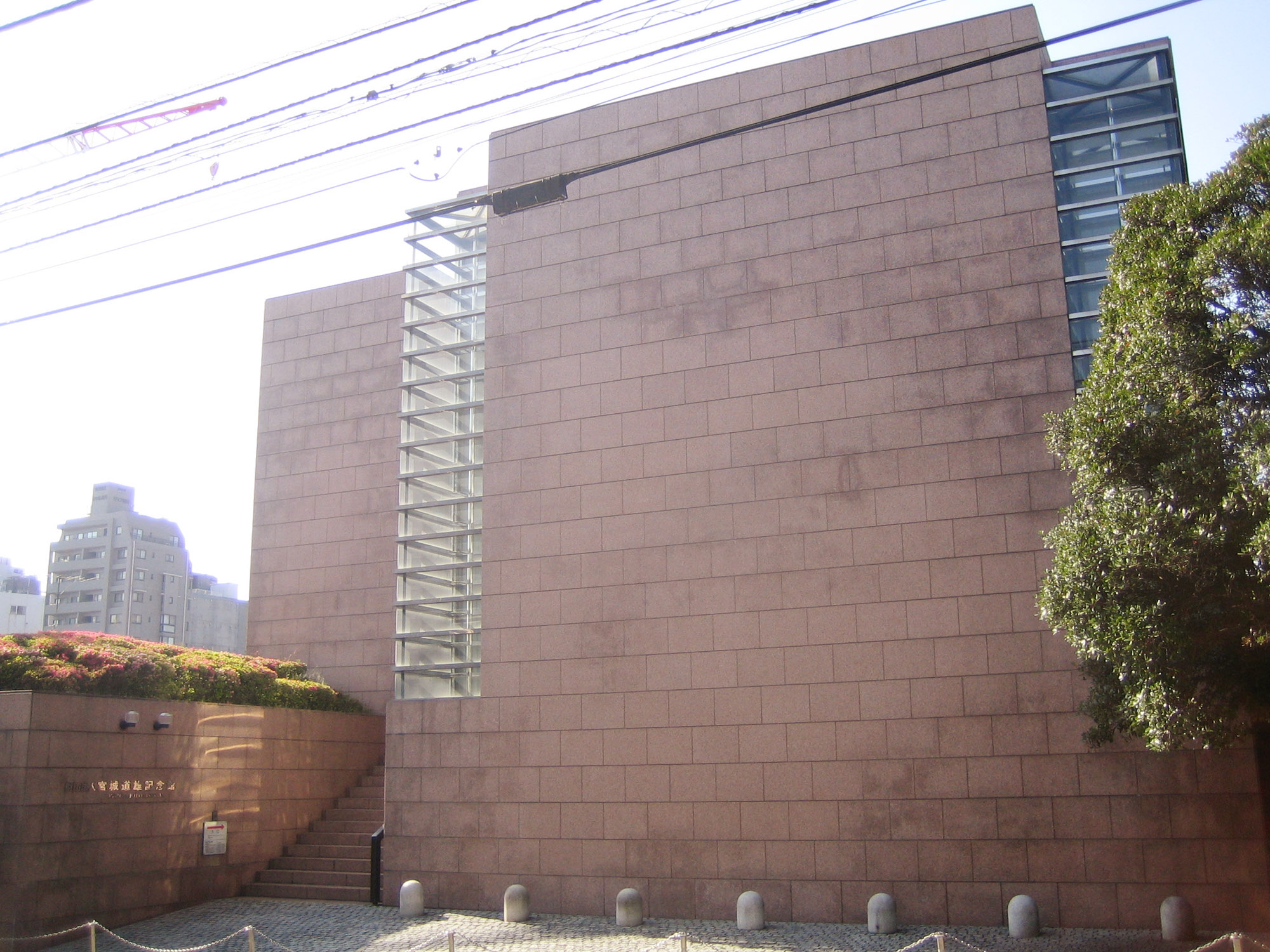 Miyagi Michio Memorial Hall (宮城道雄記念館), in Shinjuku, Tokyo, Japan